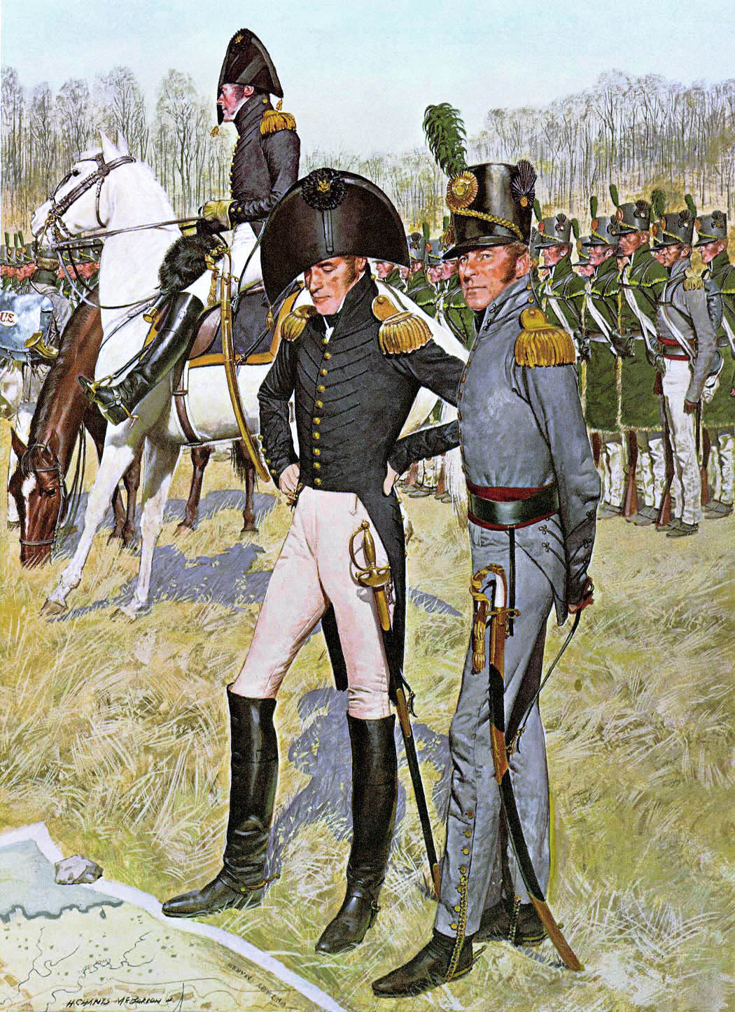 The War of 1812 was the birth of the Army General Staff. Staff officers are typically reponsible for strategic level thinking and planning, not leading a unit in the field. This was a major step forward in the professionalism and development of the Army's officer corps since it created a body dedicated to "big picture" thinking for the Army. A general staff officer is standing on the left with a field grade officer standing next to him.